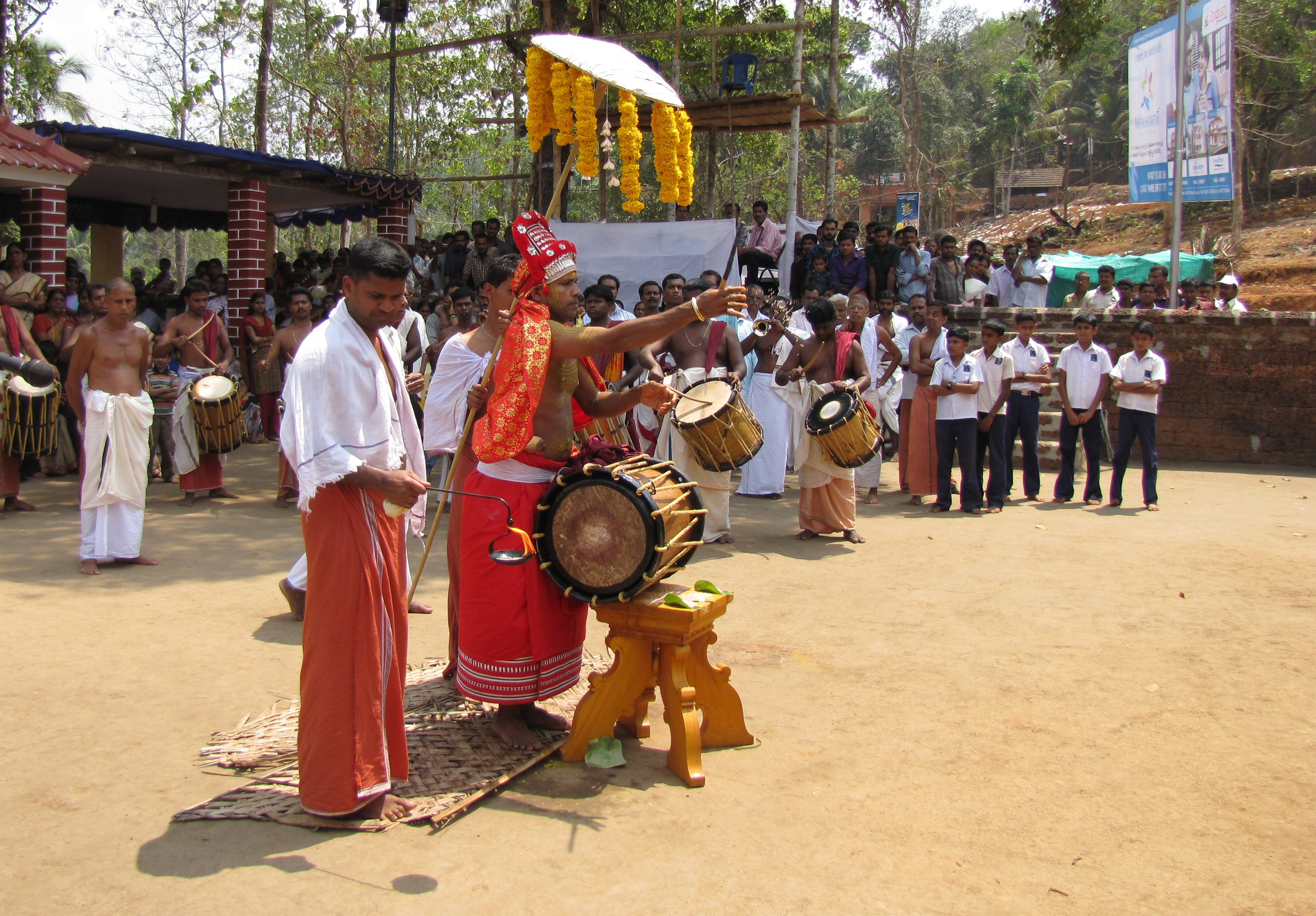 Muchilottu Bhagavathi's Atichuthali Thottam